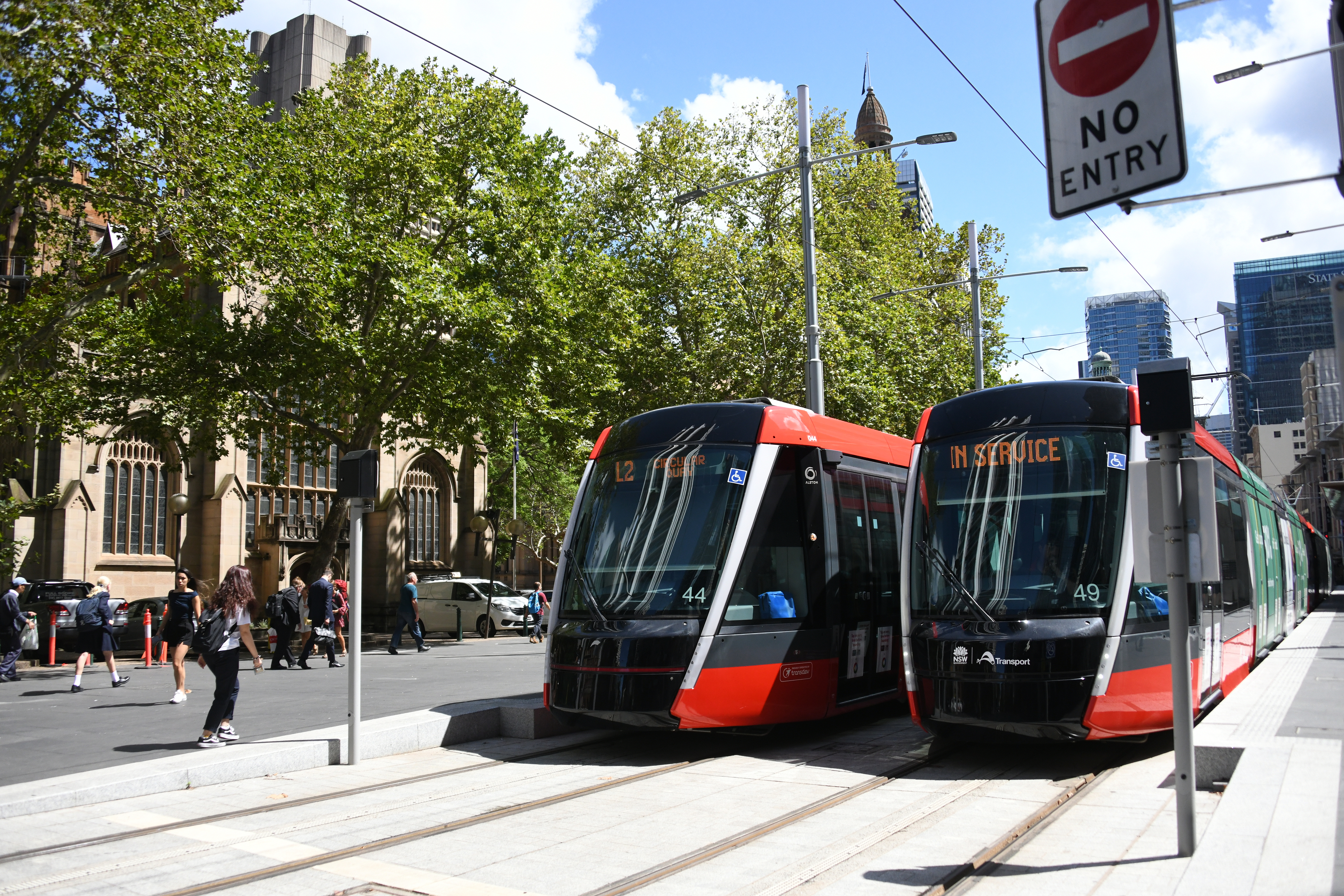 Light rail tram, George Street, Sydney